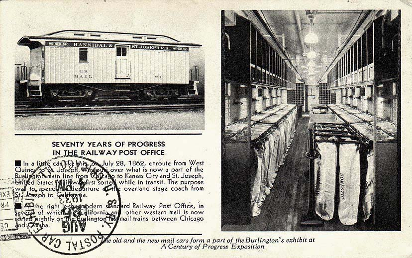 The first RPO (1862) on a picture post card (ppc) published for the 1933 "Century of Progress" Exposition at Chicago, IL, (with Aug. 25, 1933 RPO Exhibit CDS) The Cooper Collection of U.S. Railroad History (Private Collection)